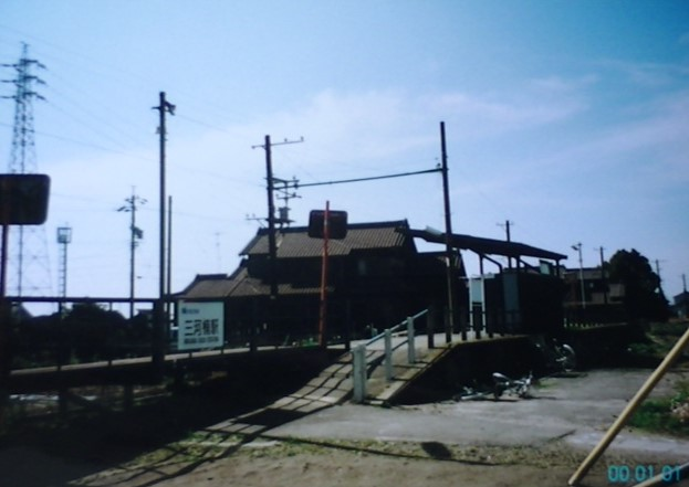 Meitetsu Mikawa line Mikawa Kusu Station (2004 March)